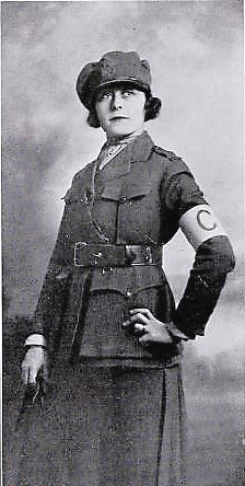 Frances Marion, c. 1918, dressed in her war correspondent uniform